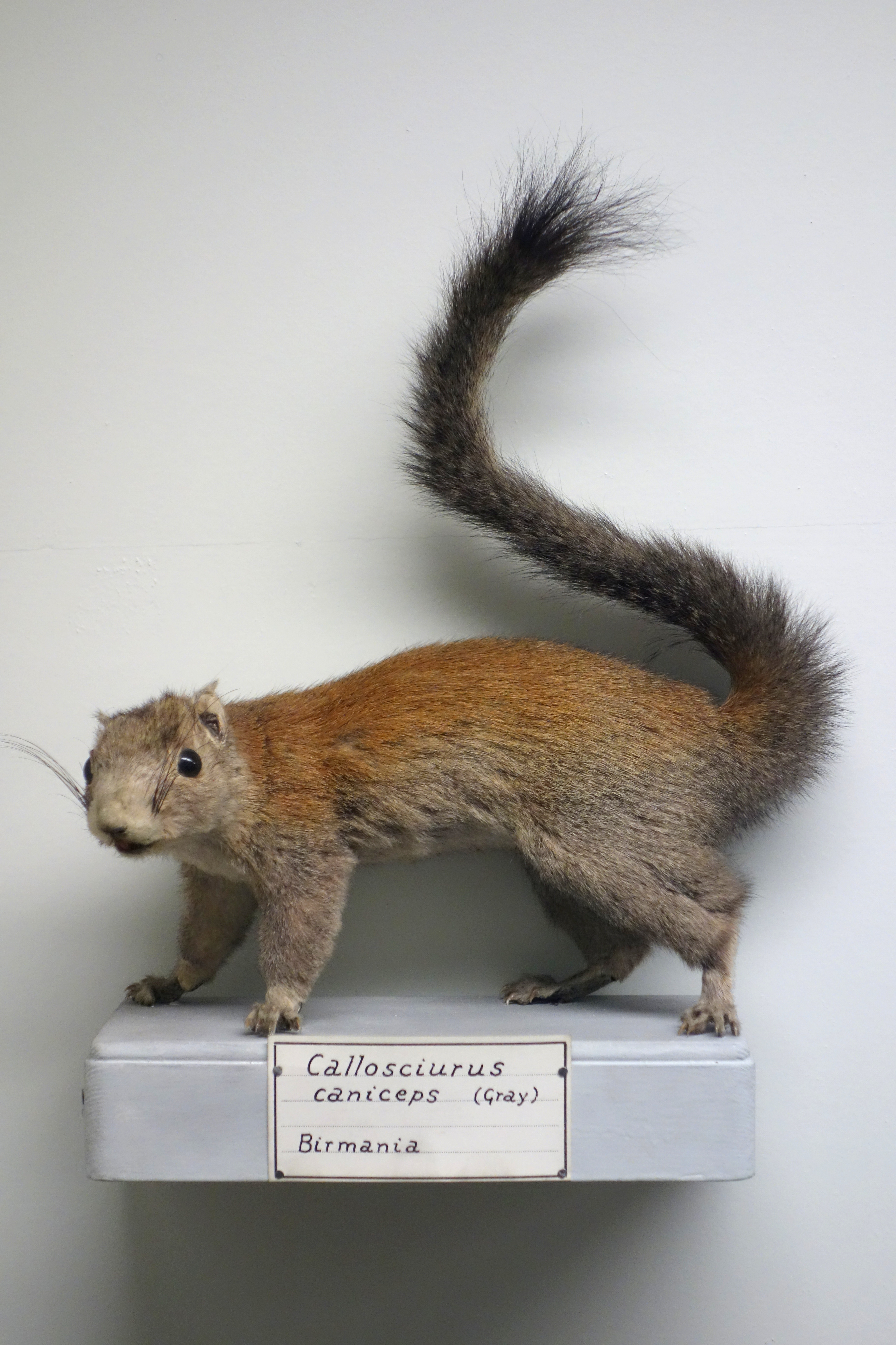 Exhibit in the Museo Civico di Storia Naturale di Genova, Via Brigata Liguria, 9, 16121, Genoa, Italy.